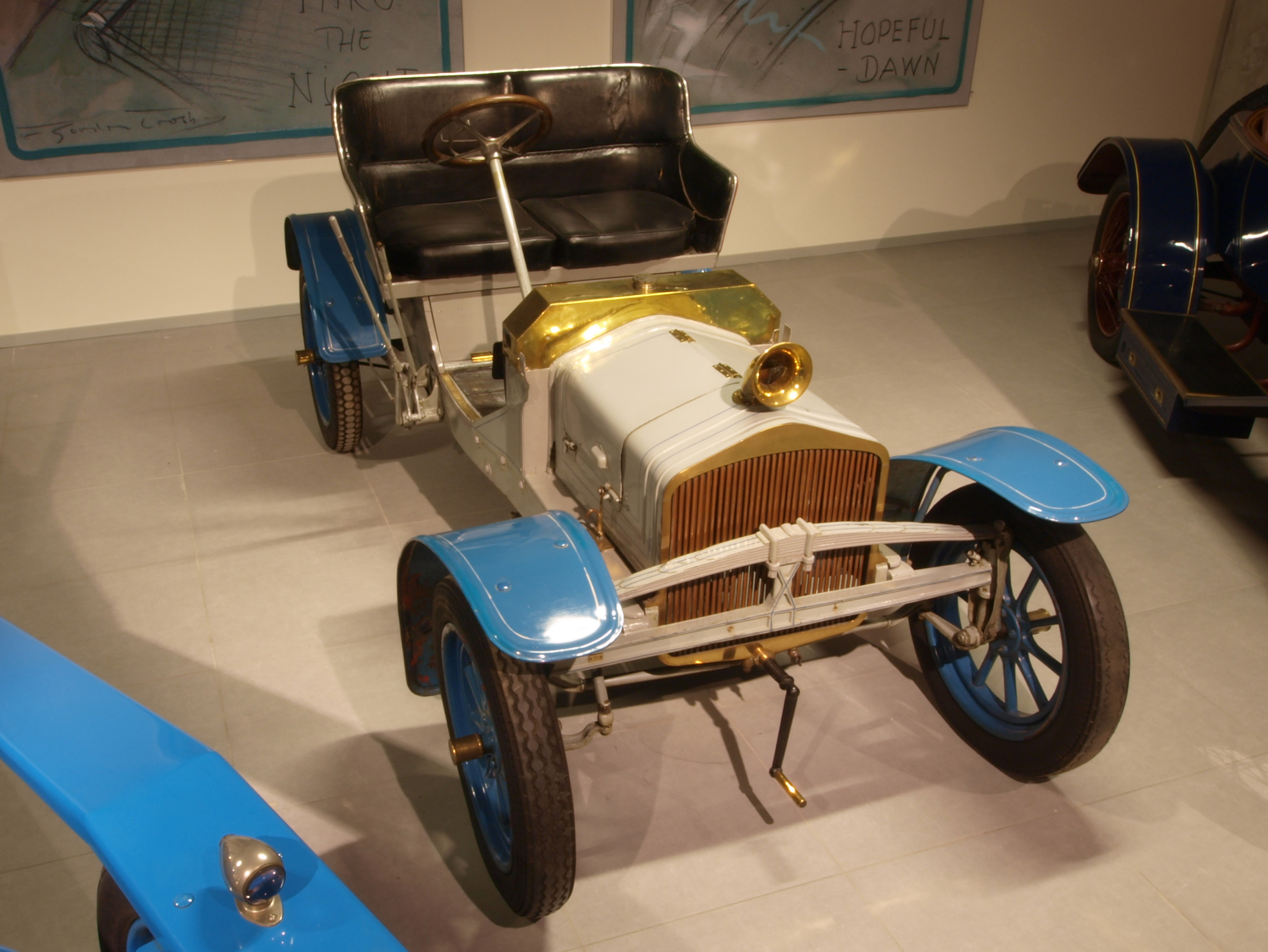 Photographed at the Louwman museum, The Netherlands.